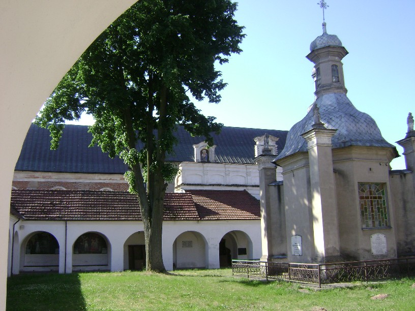 Skępe Monastery